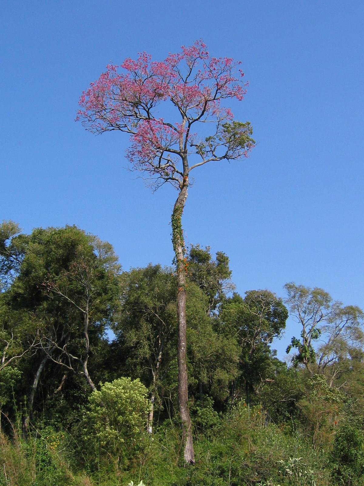 Lapacho (Tabebuia avellanedae, Tabebuia impetiginosa) in the San Rafael Reserve, Paraguay.